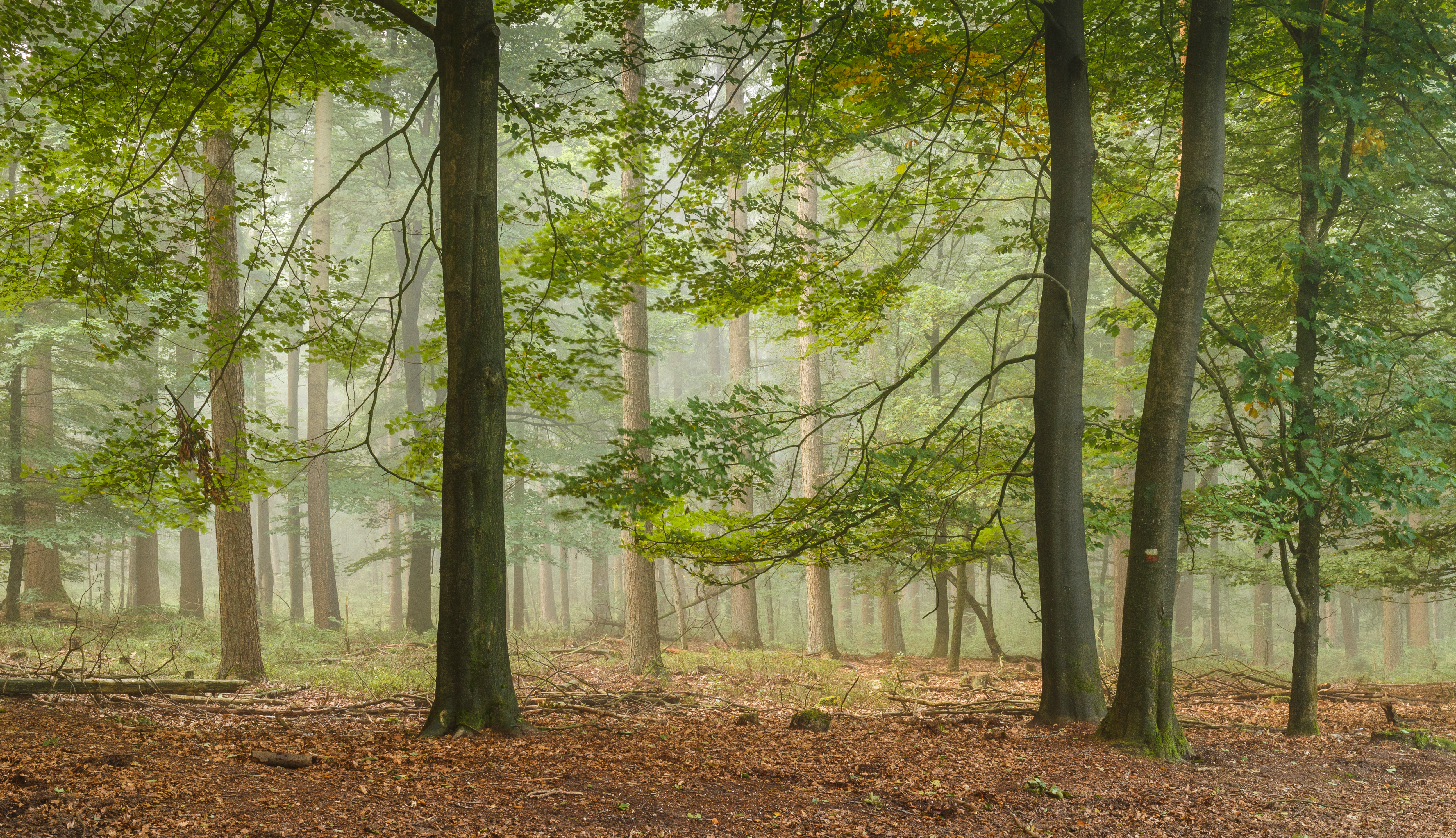 Walking the Planken Wambuis from Mossel. Morning mist hangs over the Planken Wambuis.